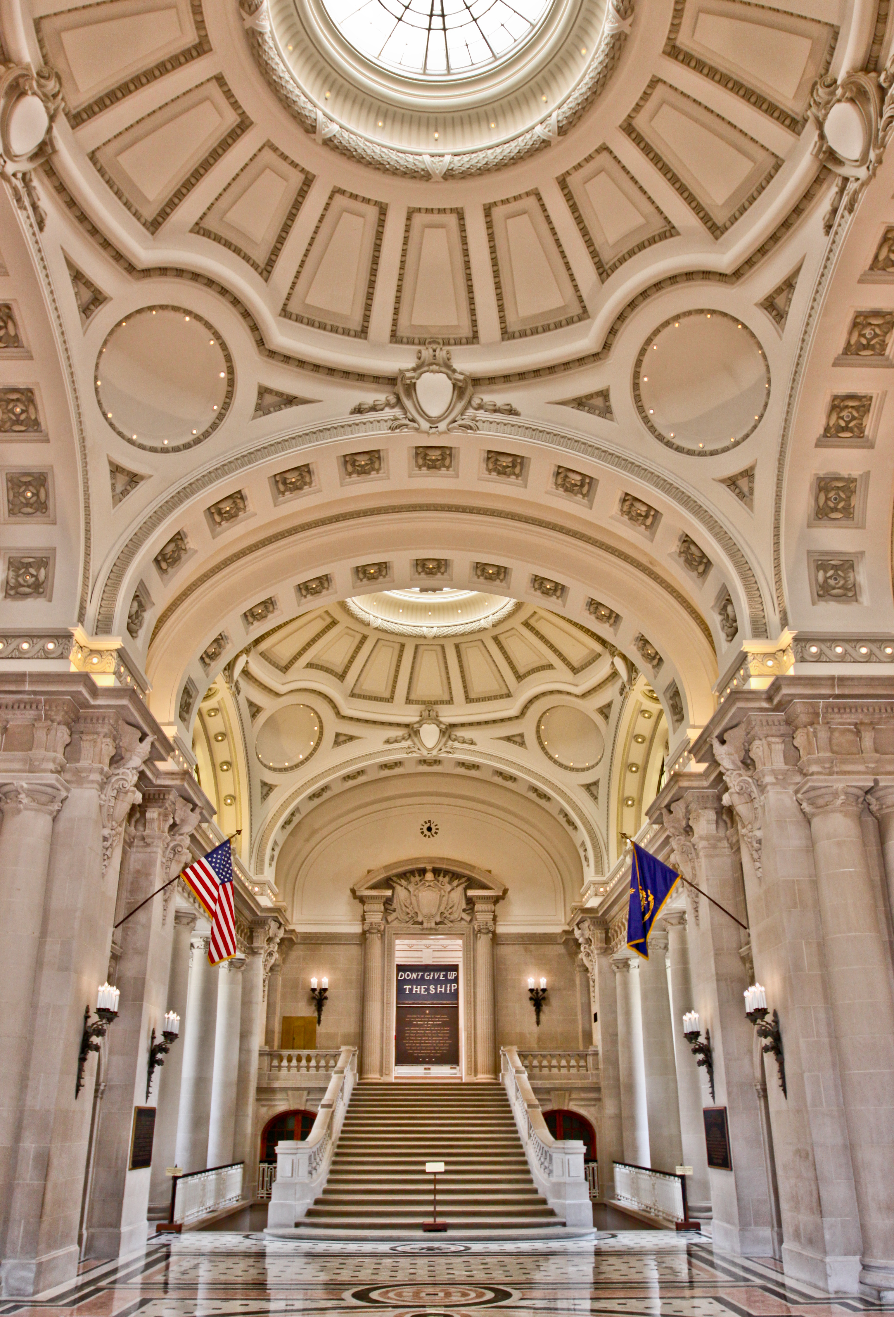 Bancroft Hall, U.S. Naval Academy, Annapolis, MD